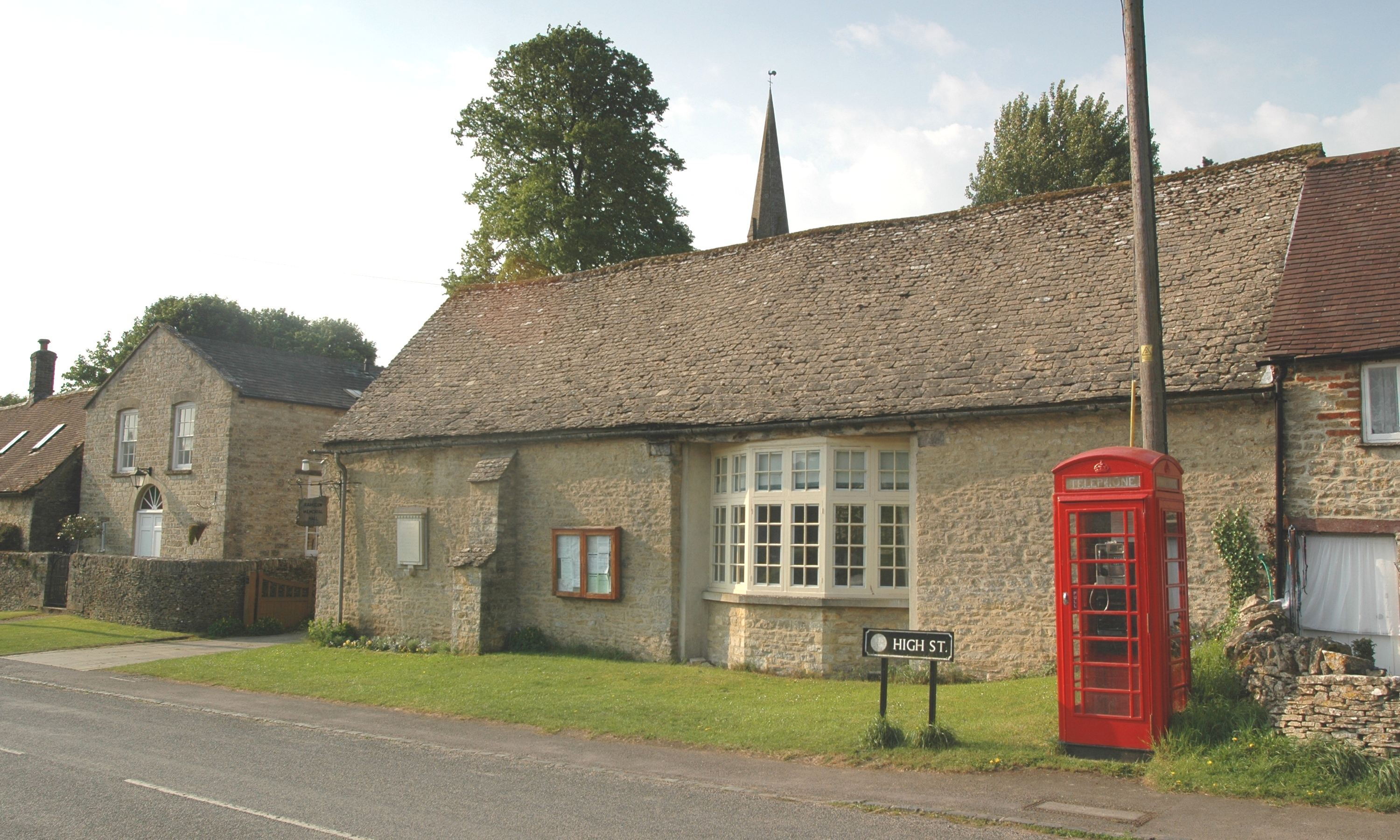 Memorial Hall, High Street, Ramsden, Oxfordshire